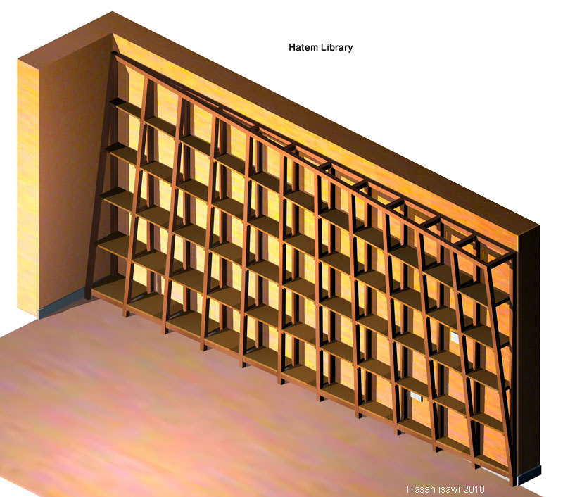 descriptive geometry, application of the concept of ruled surfaces to build a library